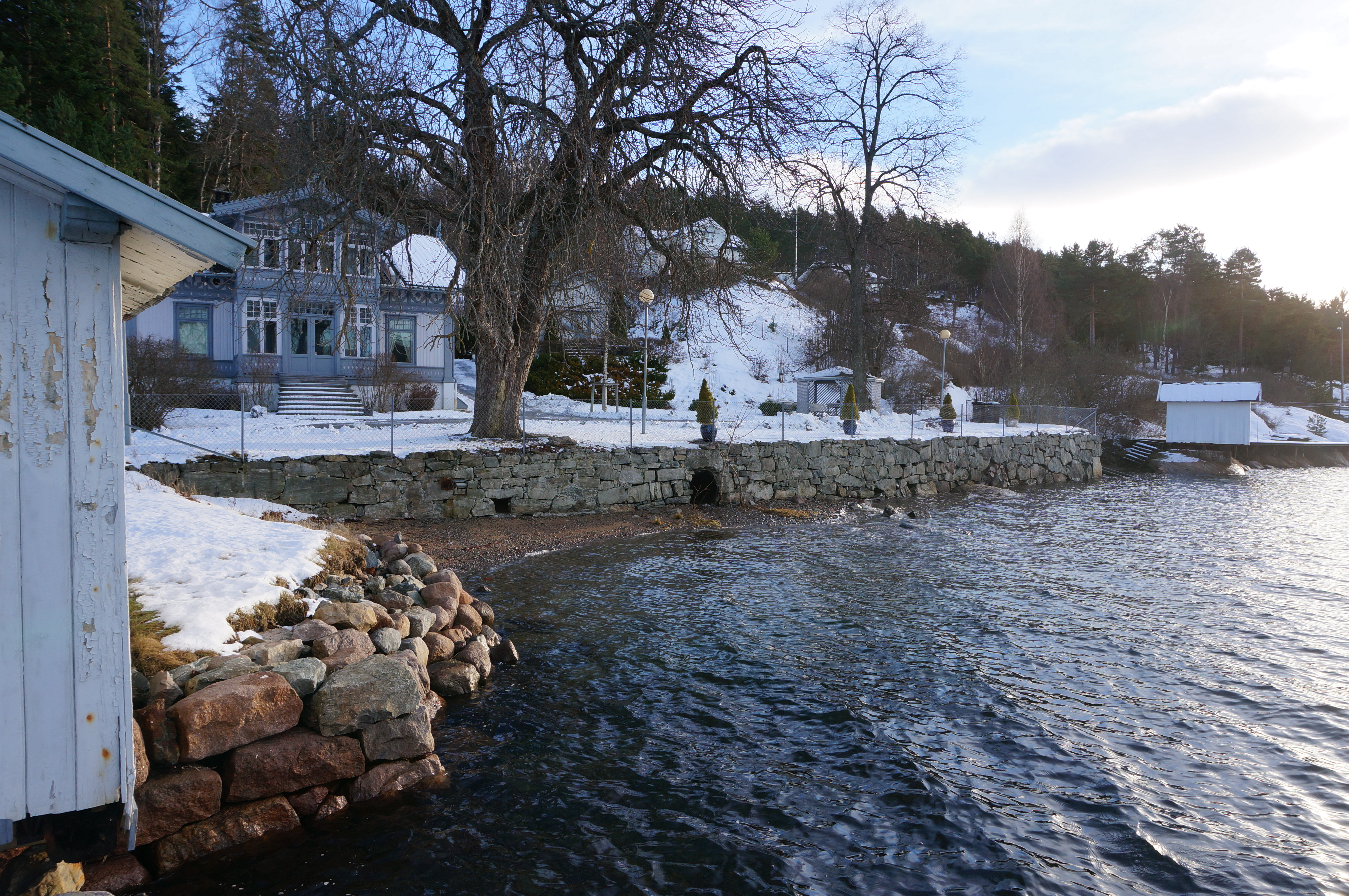 Polar explorer Roald Amundsens private home "Uranienborg" by the Oslo fjord near Oslo